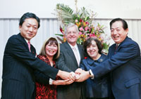 April 1 - Democratic Party of Japan Secretary General Yukio Hatoyama, Prop Station Chairperson Nami Takenaka, Ambassador Schieffer, U.S. Department of Defense Computer/Electronic Accommodation Program Director Dinah F.B. Cohen, and New Komeito President Akihiro Ota joined hands March 24 at the opening ceremony of the 2008 International Symposium on Realizing a Universal Society. The aim of the symposium, jointly held by Prop Station and Yomiuri Shimbun, was to promote building a society so that everyone can fully participate regardless of age, gender, or type of disability.